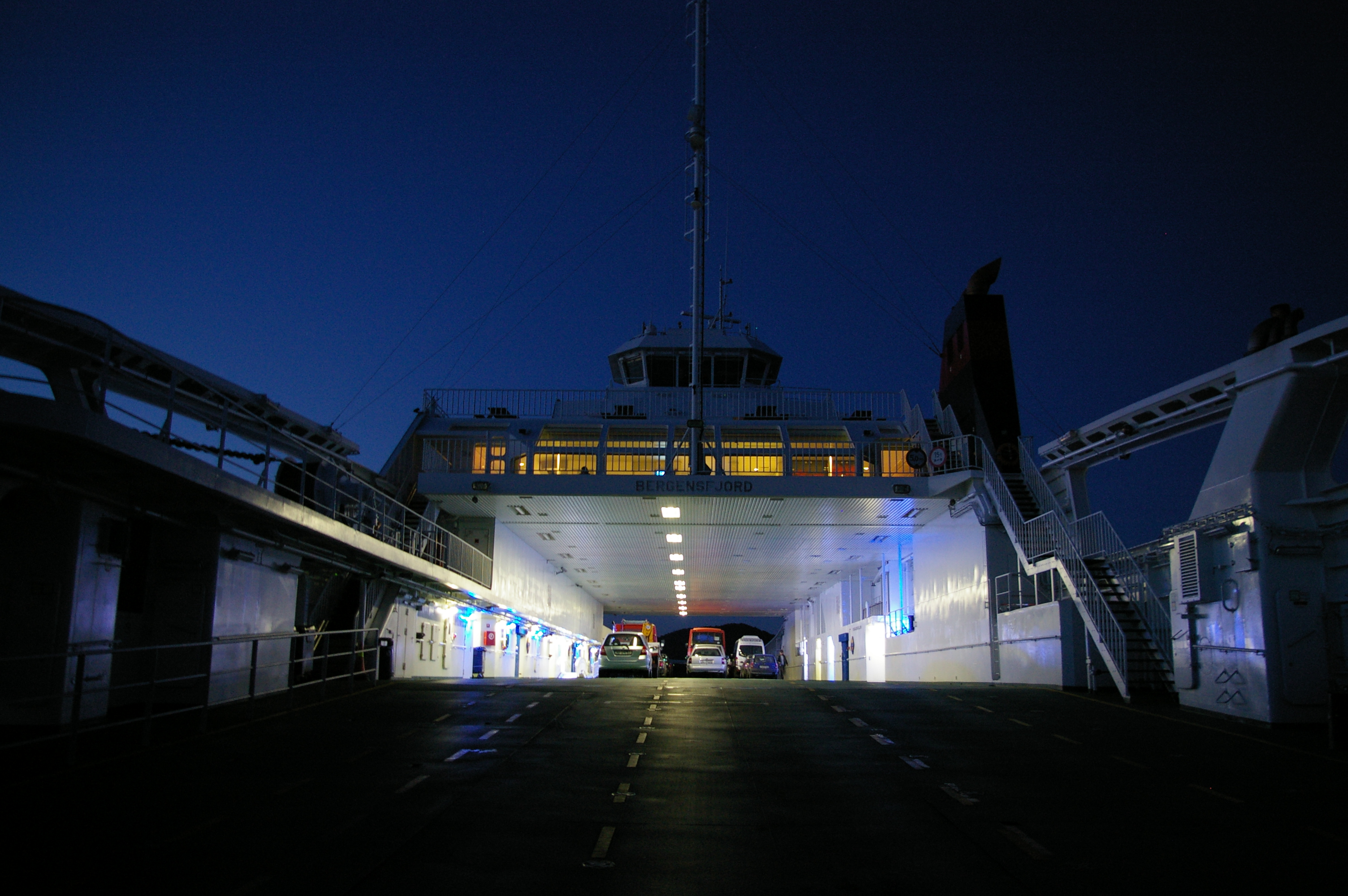 The ferry MF Bergenfjord.